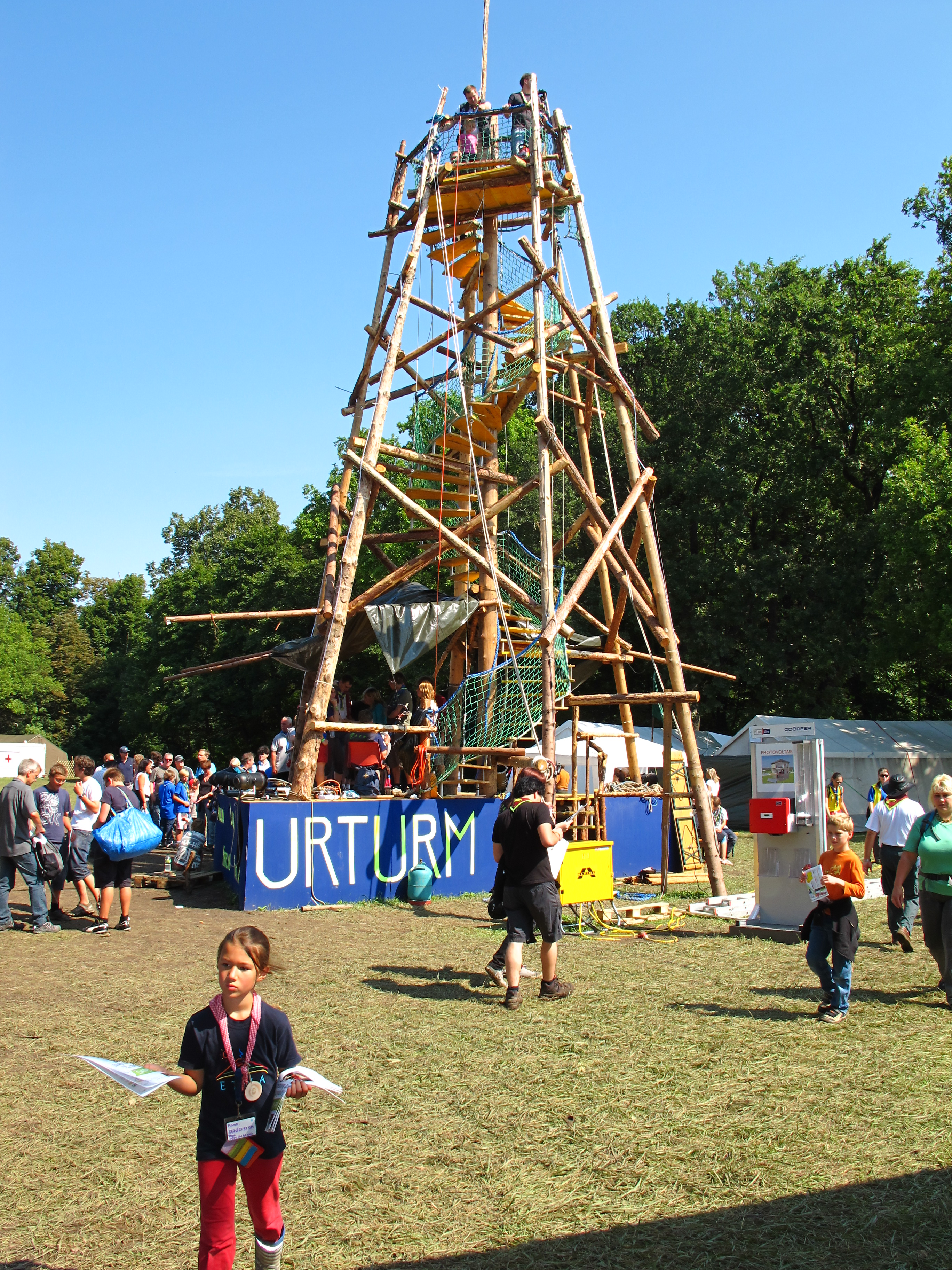 Buildings at the scout meeting Austrian Jubilee Jamboree urSPRUNG 2010 in the park of the Castle of Laxenburg / near Vienna / Austria / EU.